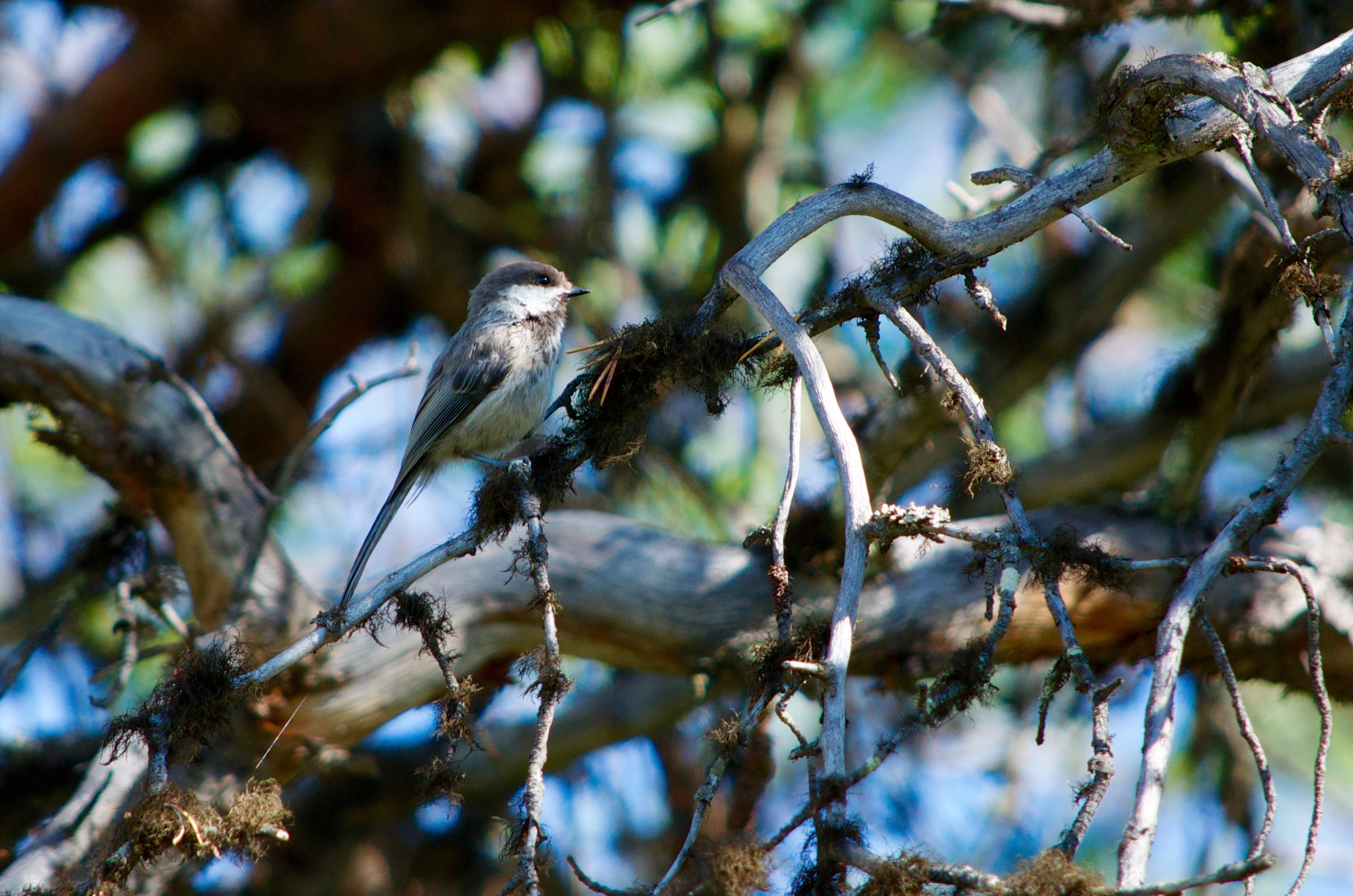 Grey-headed chickadee (Poecile cinctus) photographed in the Vätsäri Wilderness Area, Inari, Finland.